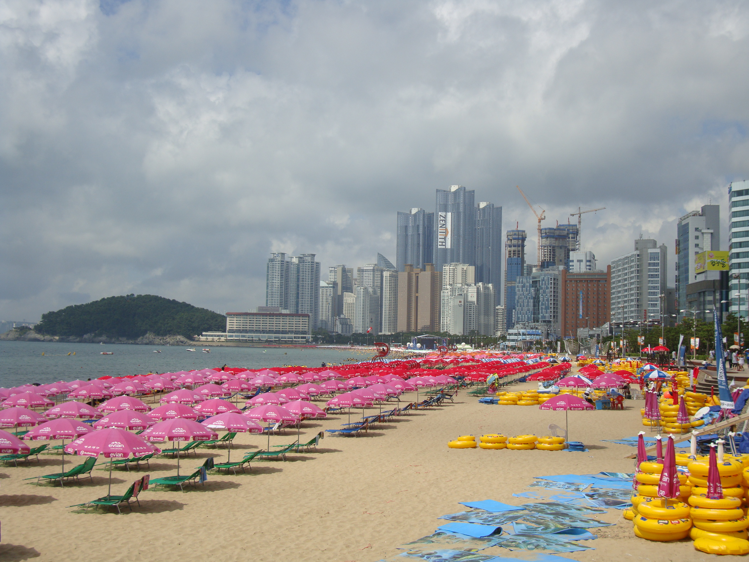 Afternoon in Haeundae Beach, Busan, South Korea. Photograph from Flickr; author Jens-Olaf Walter; license of cc-by-2.0.